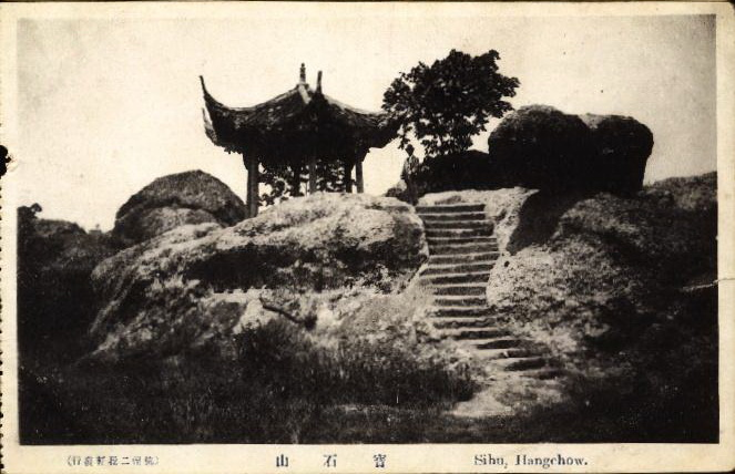 Postcard of West Lake